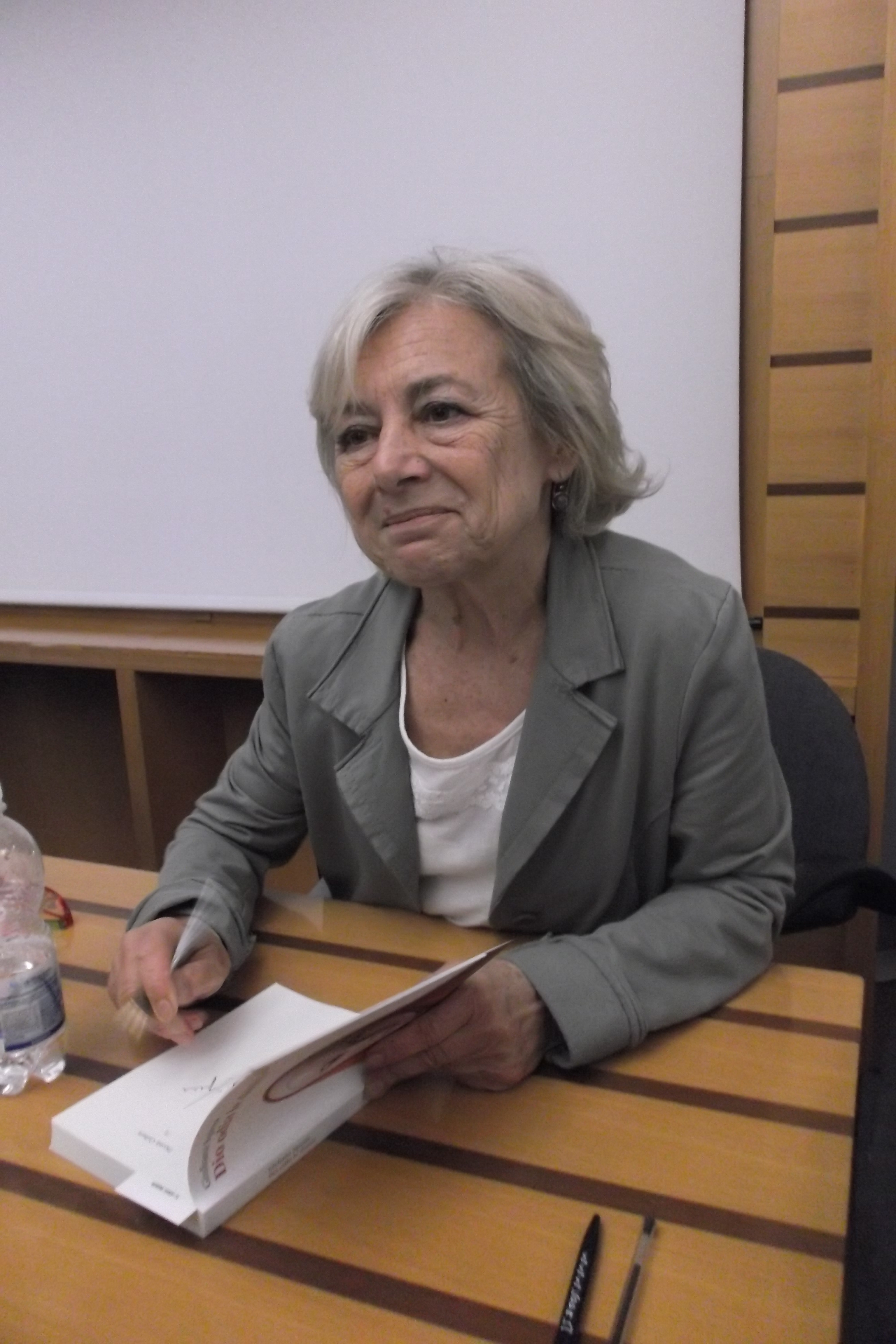 Italian journalist and writer Giuliana Sgrena during the presentation of her 2016 book Dio odia le donne (God Hates Women) organized by the Italian Union of Rationalist Atheists and Agnostics at the International Women's House, Rome